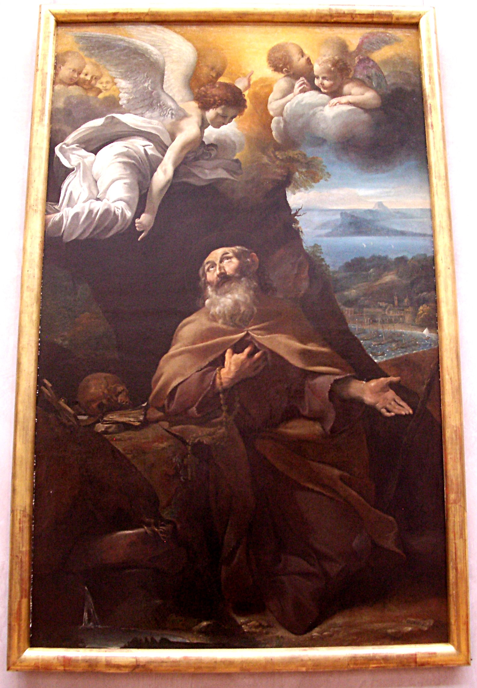 Saint Conrad Confalonieri